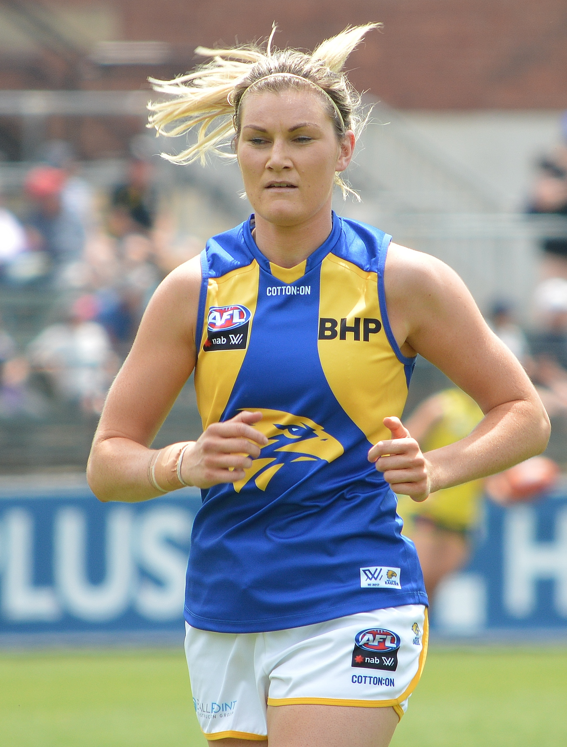 Grace Kelly with West Coast during a pre-season AFL Women's match against Richmond at Punt Road Oval in January 2020.